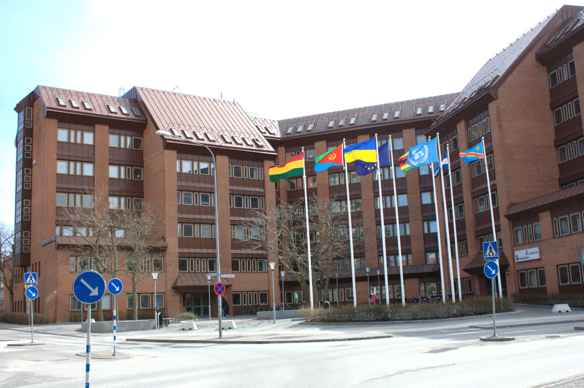 Embassy of Ukraine in Sweden (Mrs. Irina Butiaha)